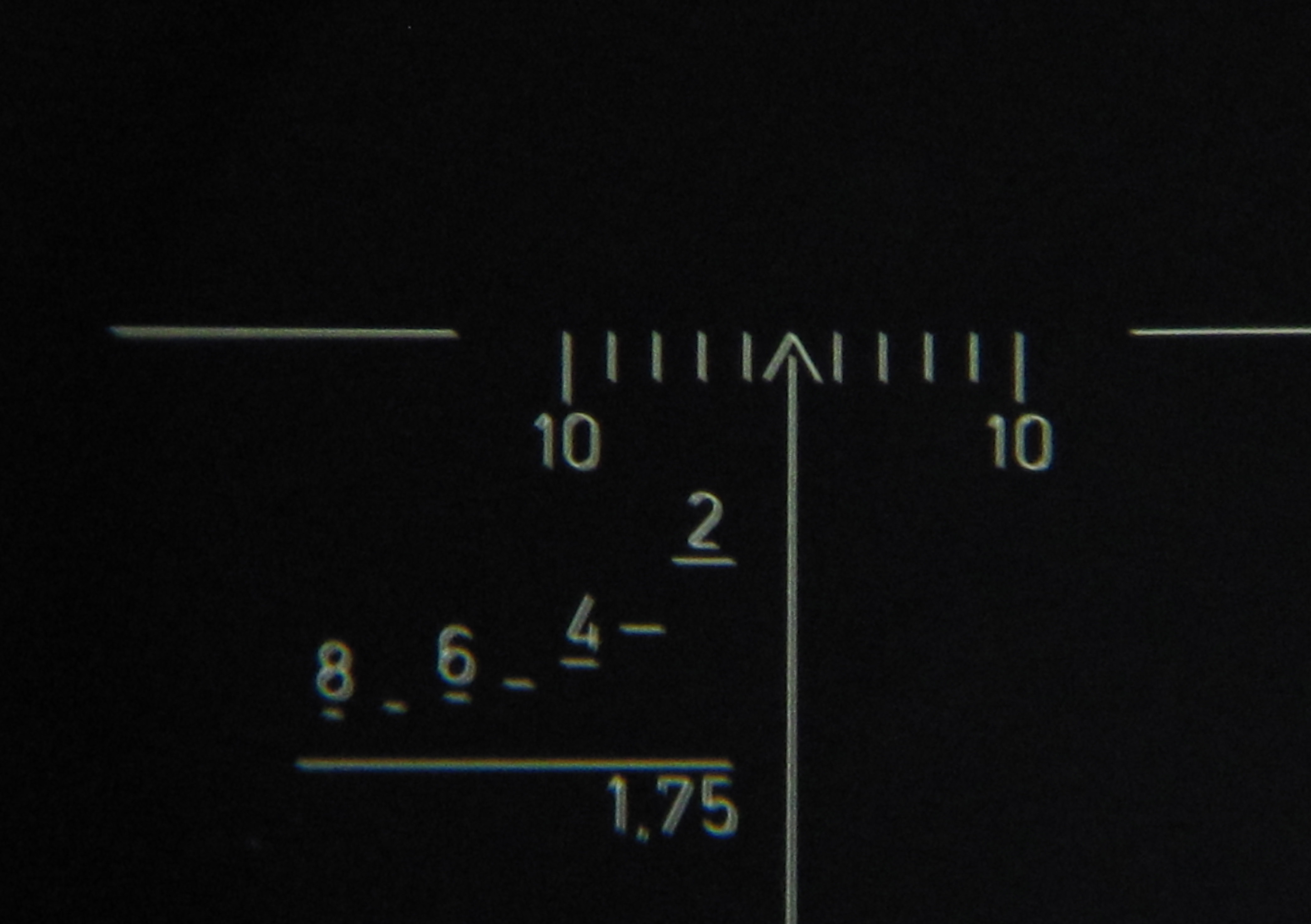 Zrak ON-M76B on the dark, with illumated reticle.